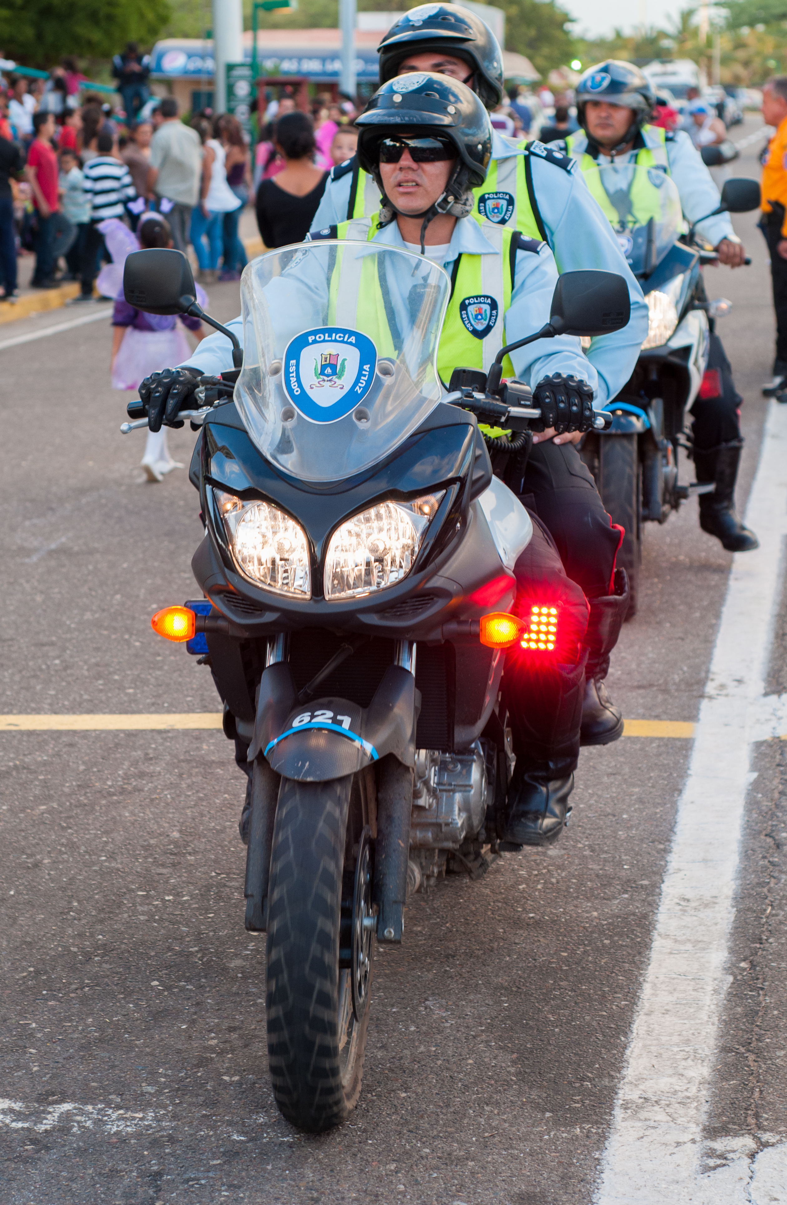 Police Maracaibo